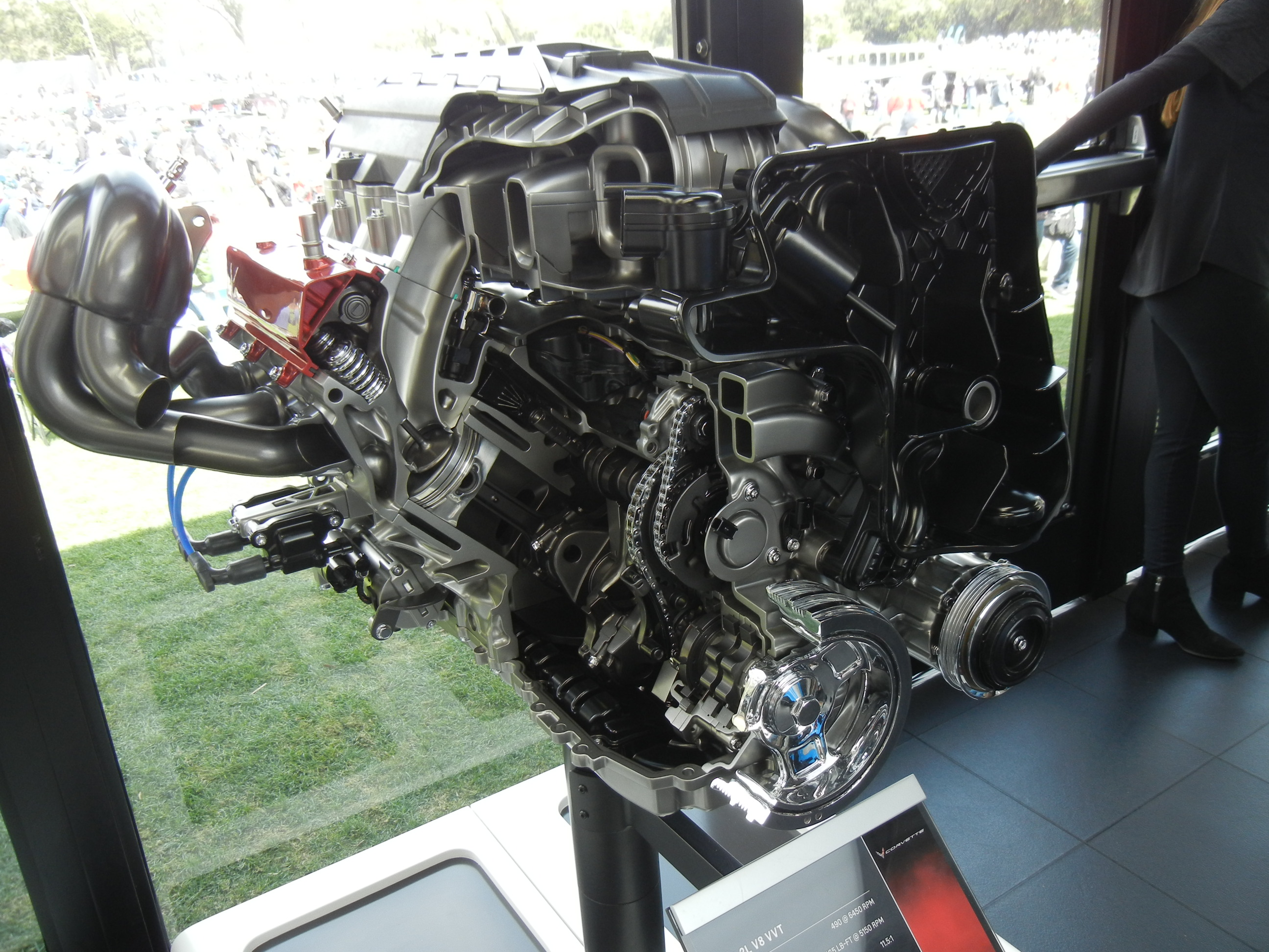 Corvette C8 engine cutout